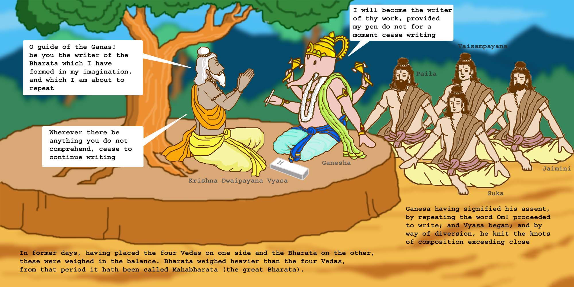 Ganesa writes Mahabharata as dictated by Vyasa